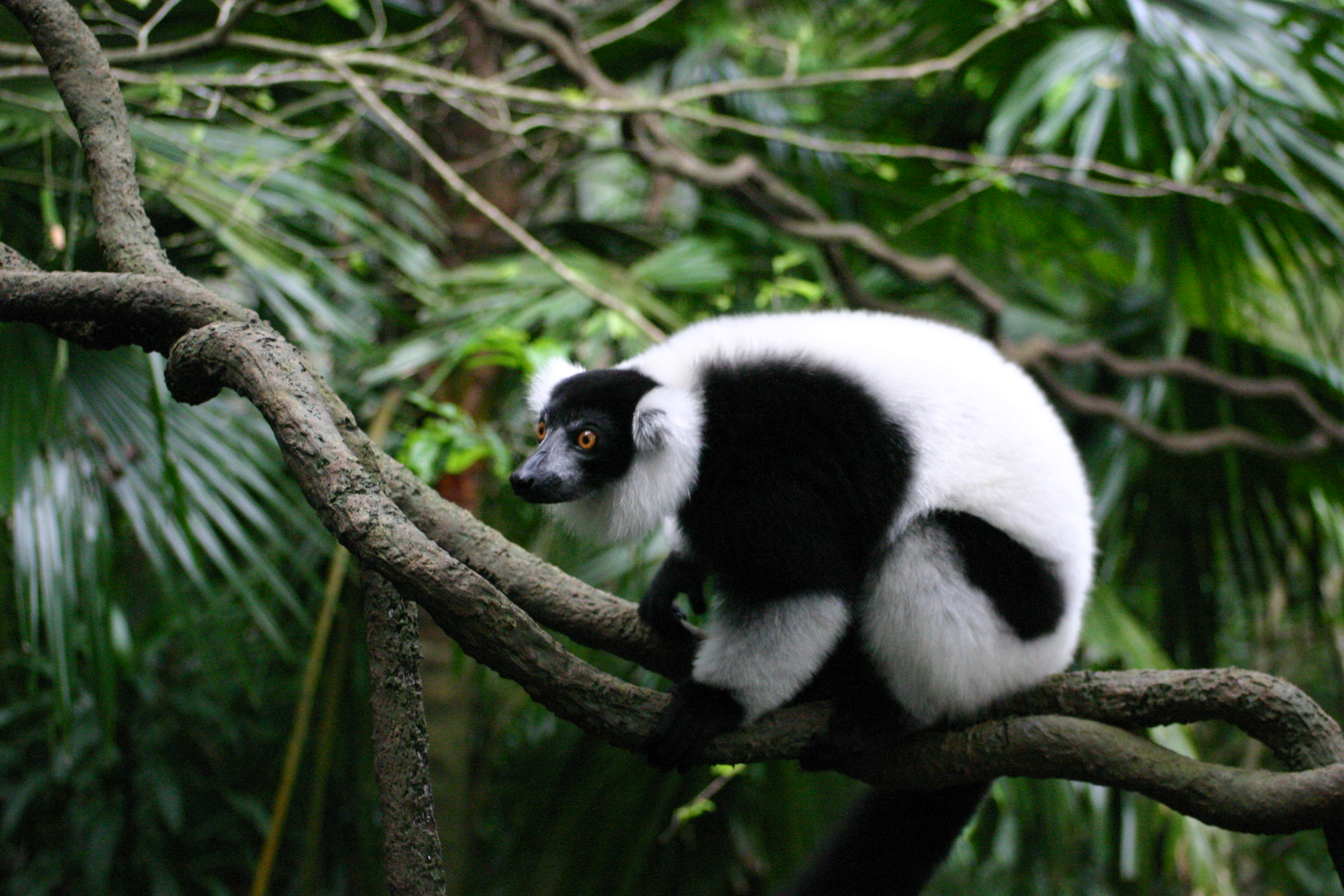 Ruffed Lemur in Singapore Zoo